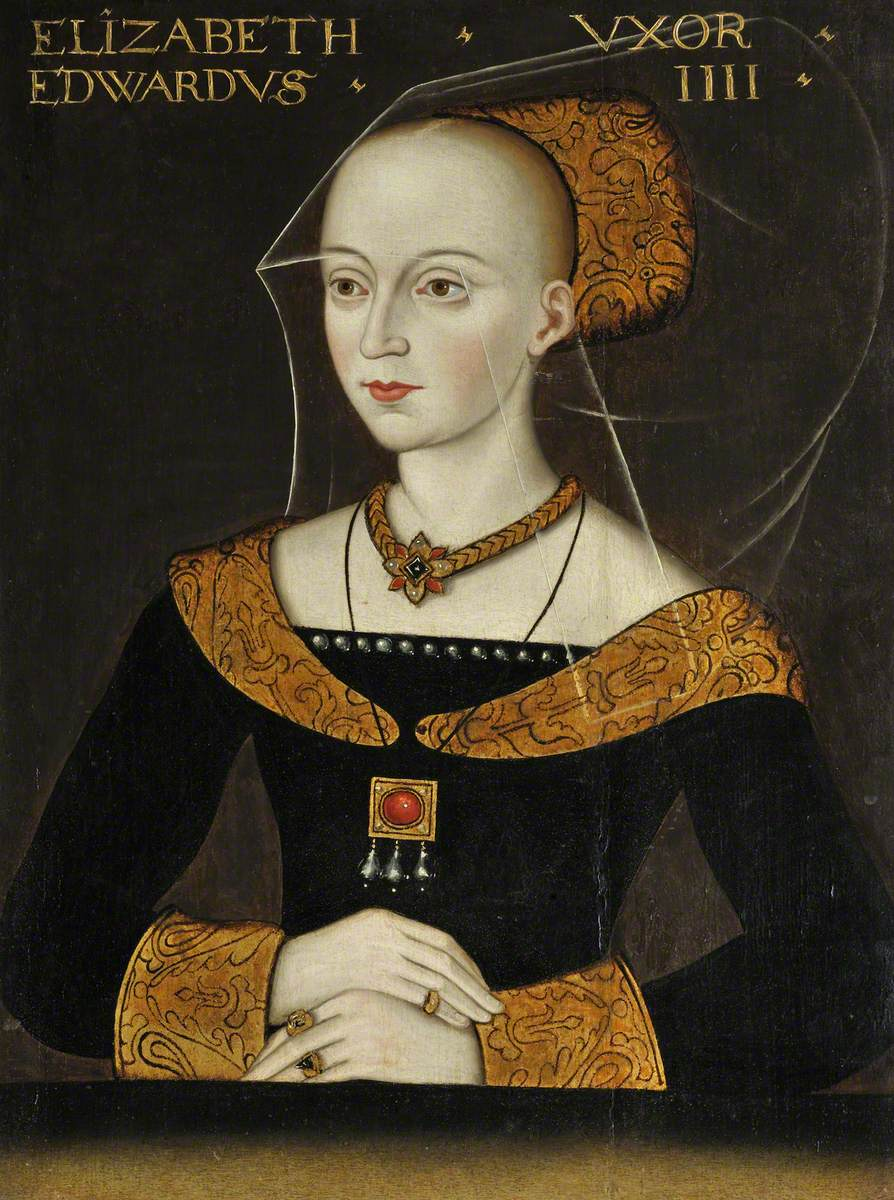 Elizabeth Woodville (1437-1492), Queen Consort of Edward IV of England. The portrait of her shown here is probably a multiple-generation copy of one taken from life. The College has several versions in differing states. She is shown posed in the high fashion of the day, with strained back hair and a partial veil.